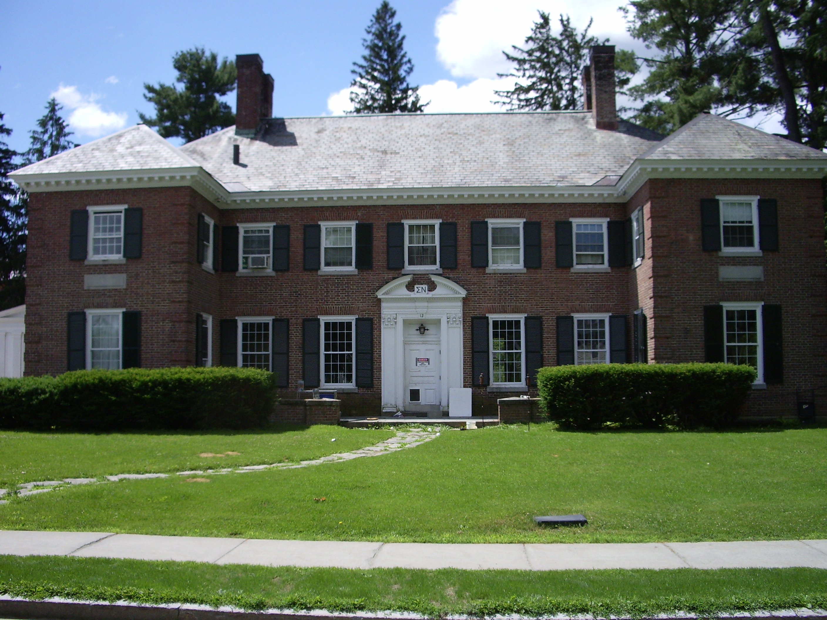 Photograph of Sigma Nu at the campus of Dartmouth College in Hanover, New Hampshire.